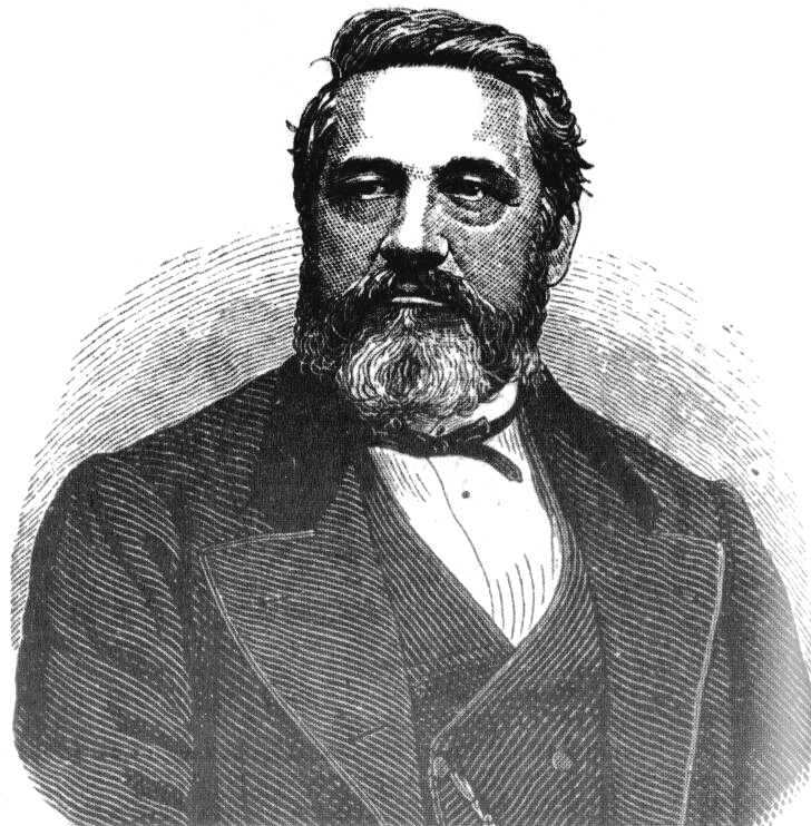 Wilhelm Herchenbach, writer in 19th-century Germany